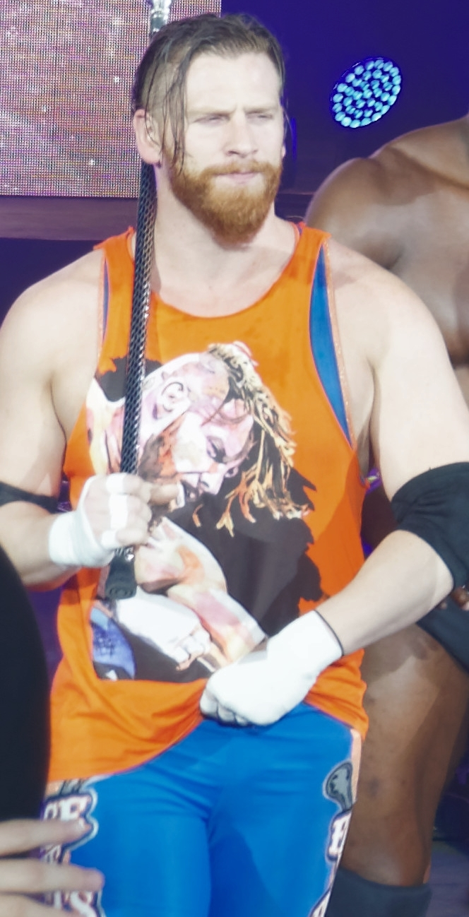 Curt Hawkins at a WWE event in 2017